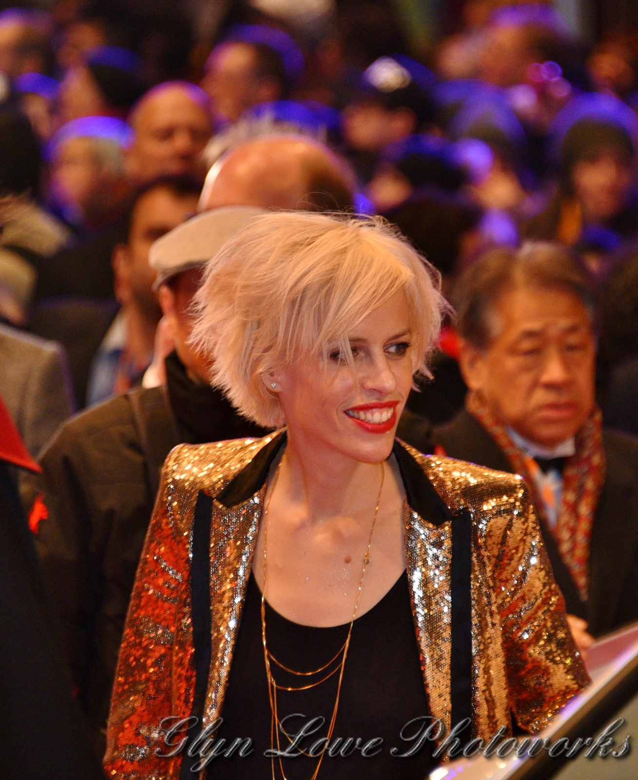 'Hail, Caesar!' Premiere during the 66th Berlinale International Film Festival on February 11, 2016 in Berlin, Germany. February in Berlin is all about film: international stars on the red carpet, enthusiastic fans from around the world – and, above all, some great films. Around 400 films are shown at the Berlinale and tickets are available for everyone, because the Berlinale is the world’s largest public film festival. For ten days, the festival features films that inspire, touch and let you discover new worlds. More Photos At